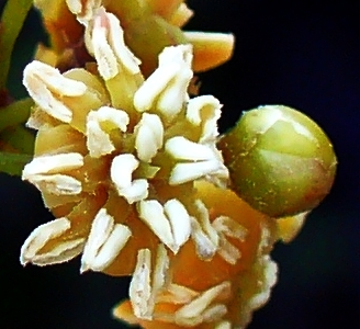 Amborella trichopoda. Wertheim Conservatory, Florida International University, Miami, Florida, USA.